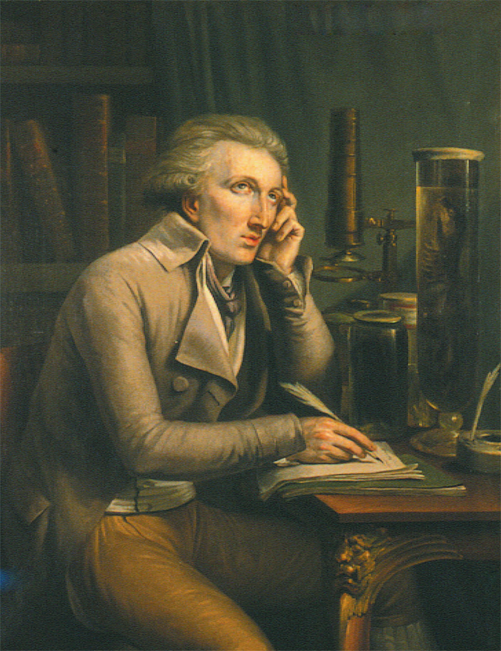 Portrait of Georges Cuvier (1769-1832)